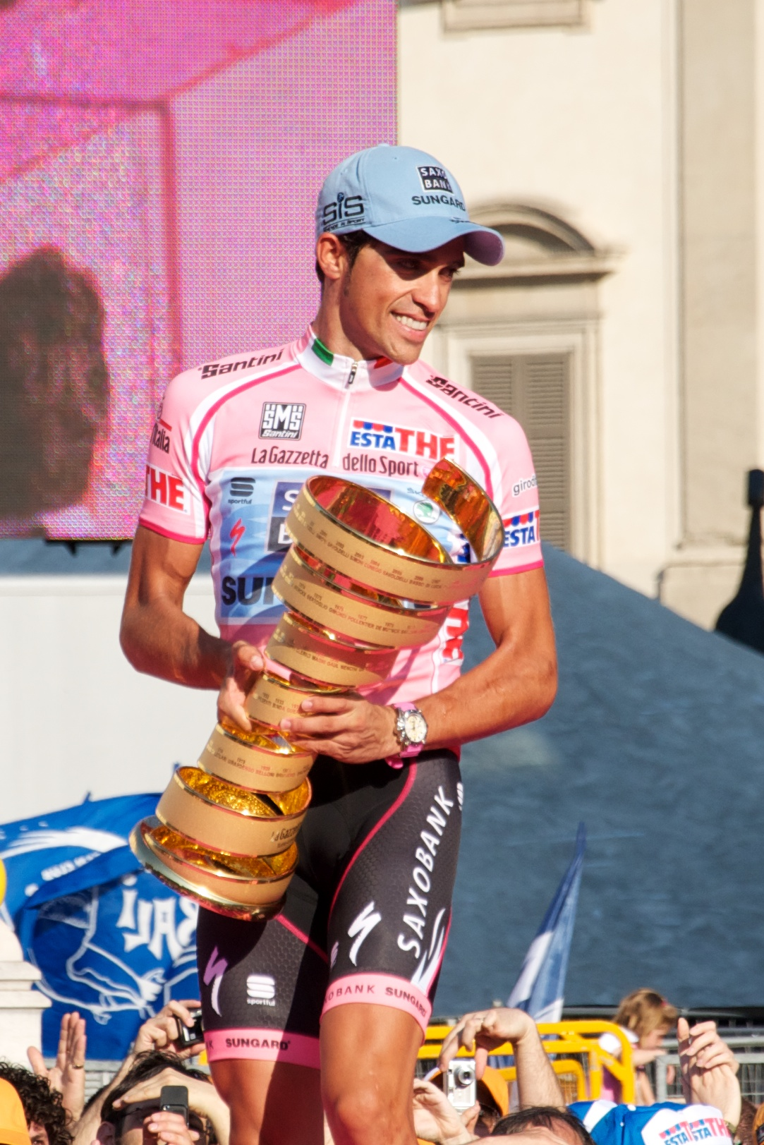 Alberto Contador celebrate his win of Giro d'Italia 2011 in Milano with pink jersey and cup